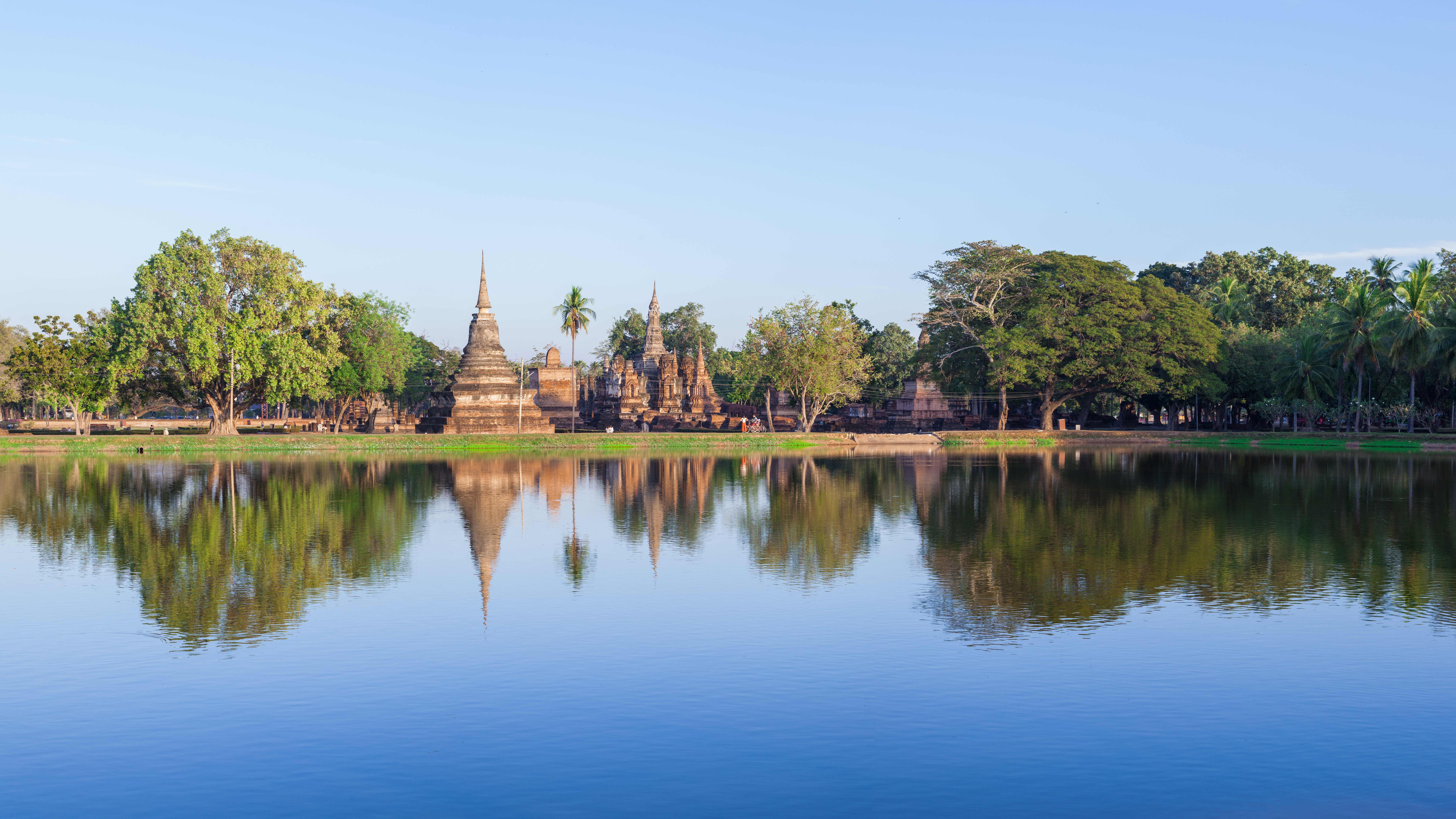 Wat Mahathat, Mueang Sukhothai District, Sukhothai Province, northern Thailand.